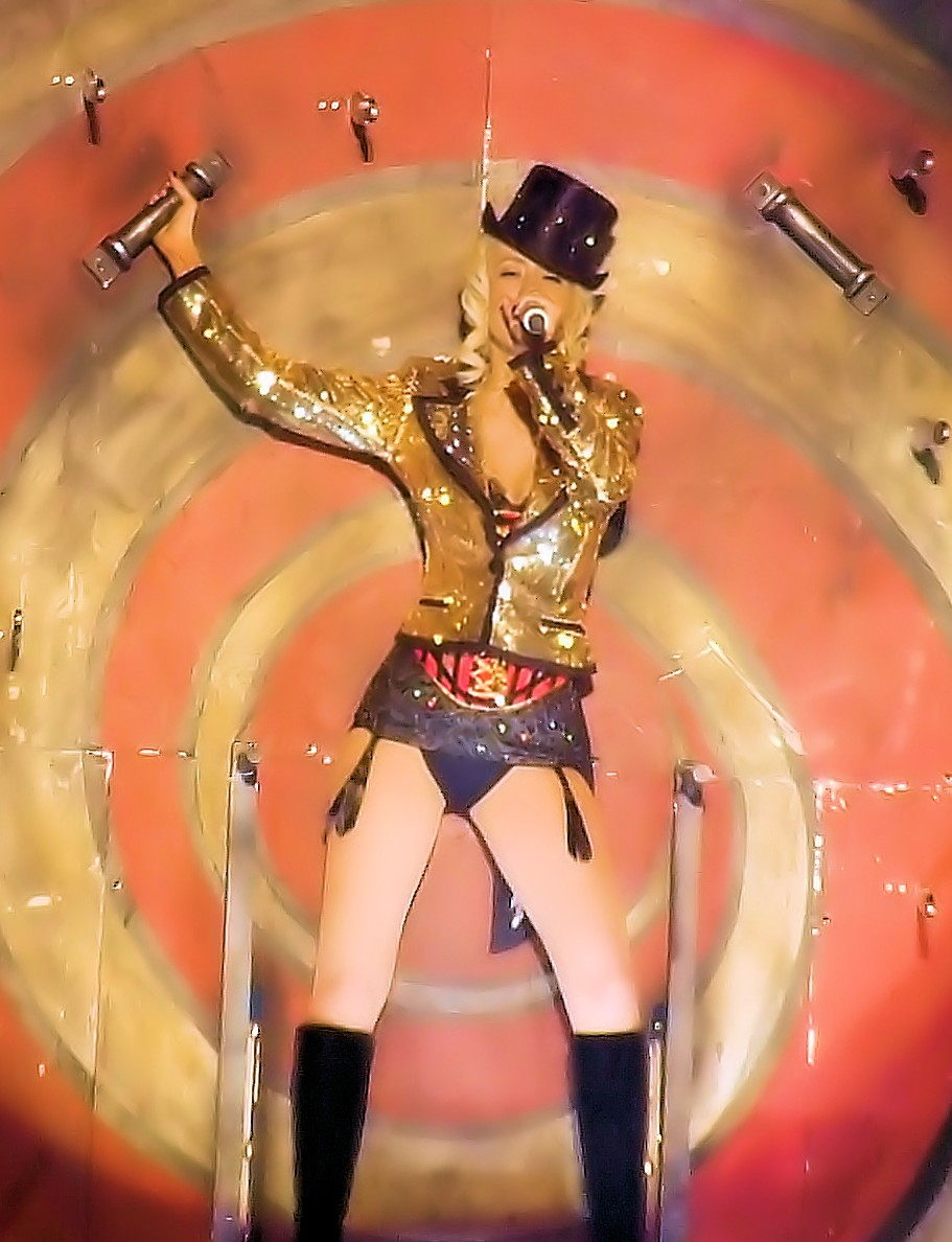 Christina Aguilera performing "Welcome"